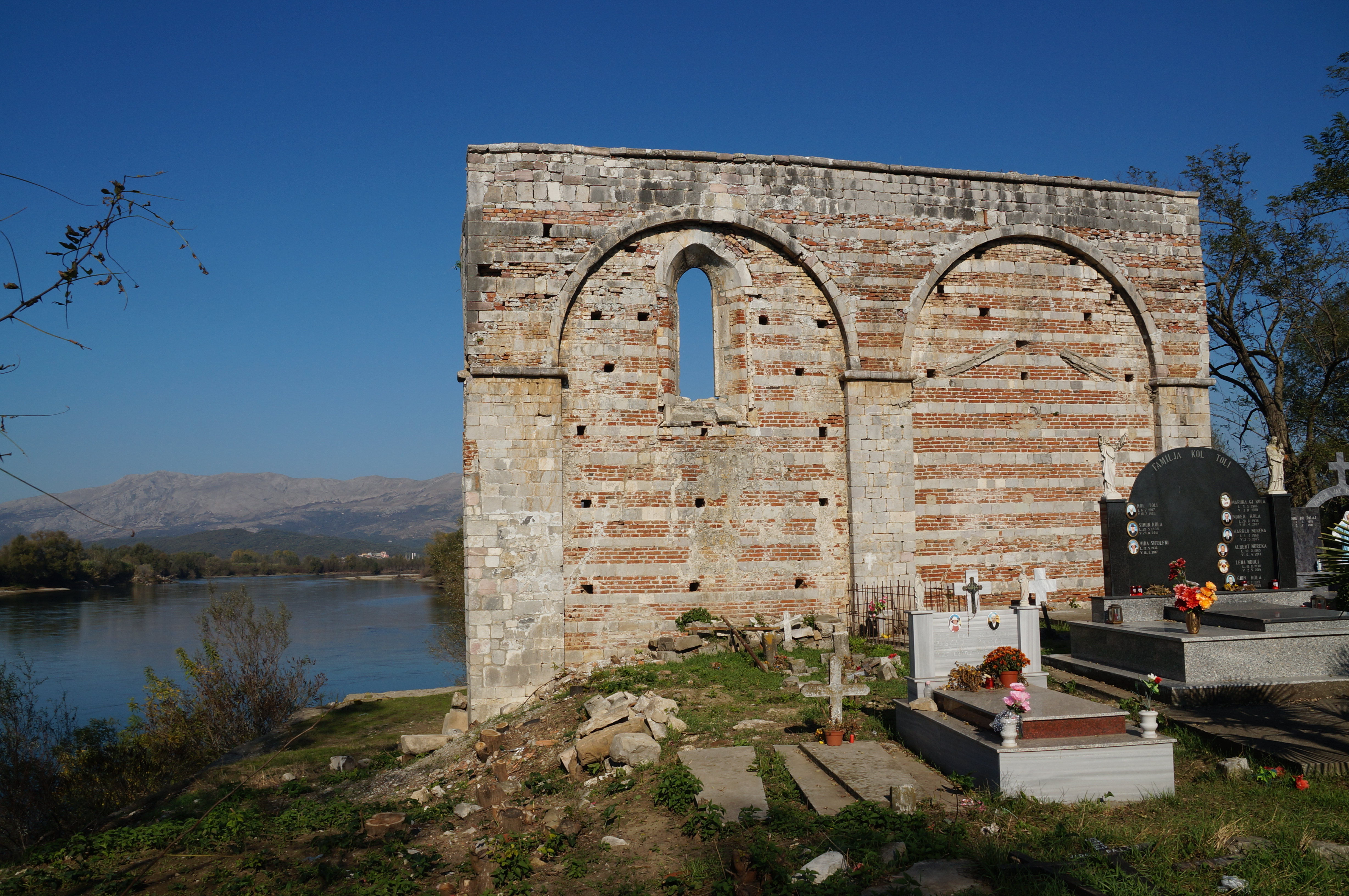 Ruins of the Church of Shirgj: the remaining wall and parts of the cemetery